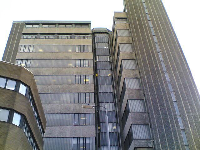 A photo of the Boyd Orr Building, University of Glasgow